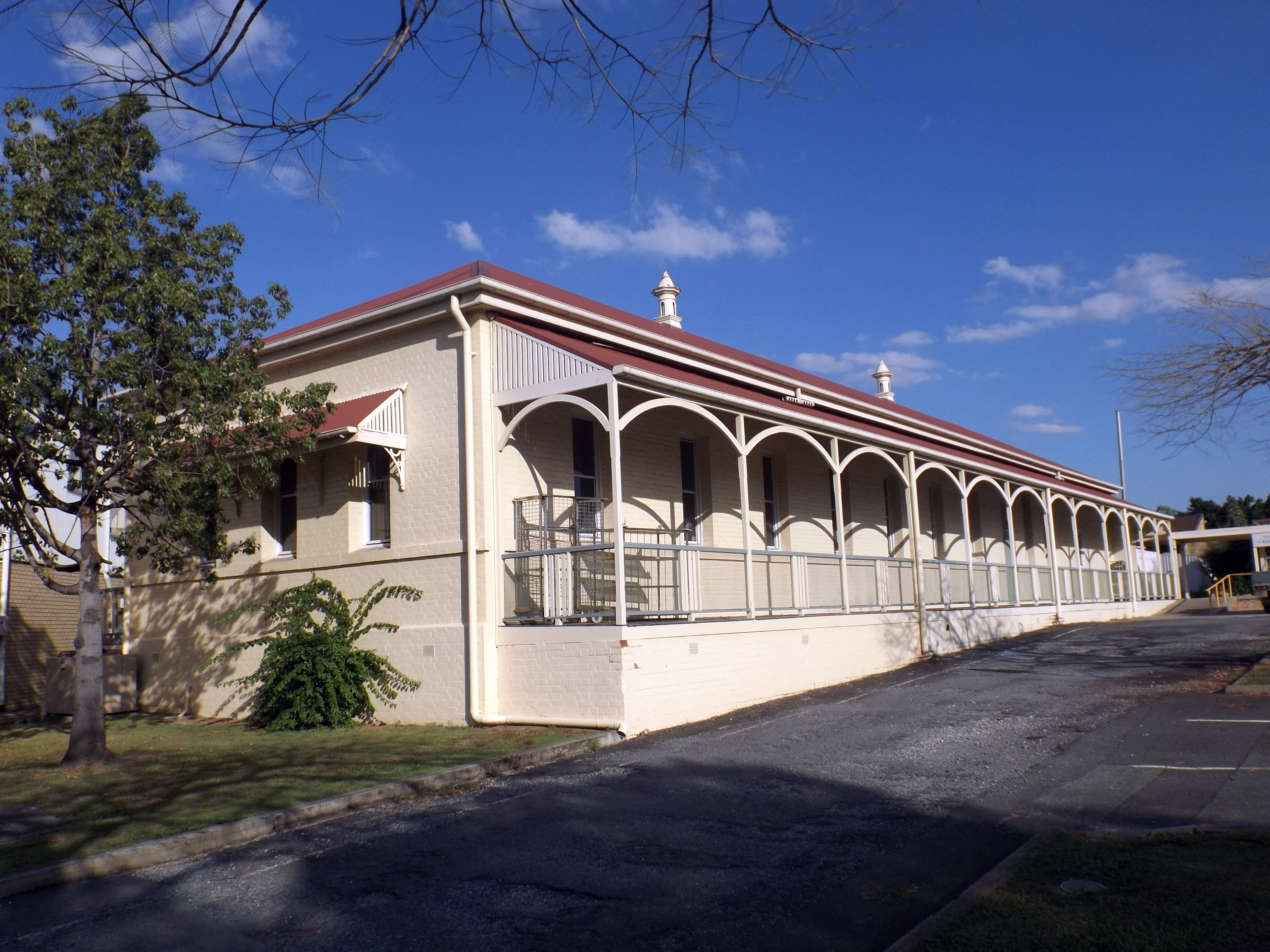 Photo of the Holy Cross Laundry at Wooloowin, Brisbane, Queensland, Australia.